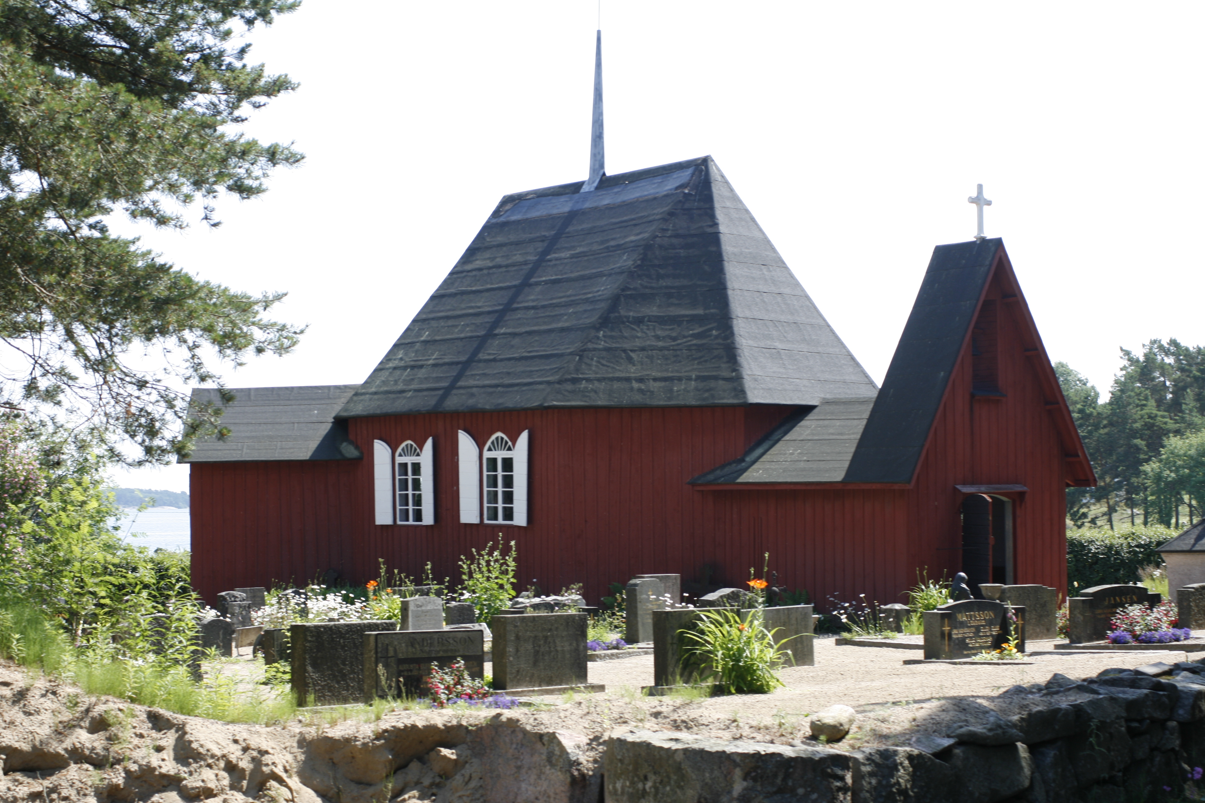 Picture of the Abraham chapel on the small island of Nötö in Nagu. Finnish archipelago.